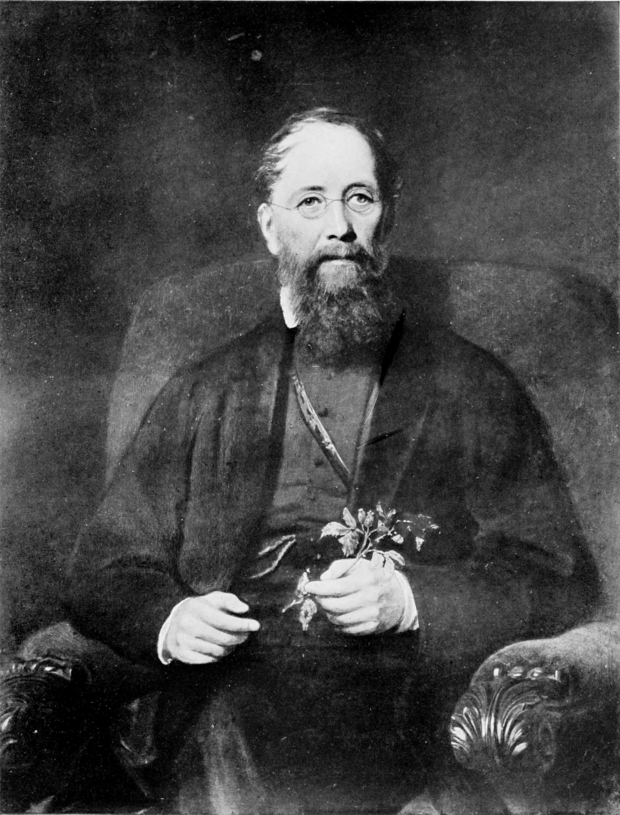 Plate 14 from Makers of British botany (1913), depicting John Lindley (1799–1865) in 1848